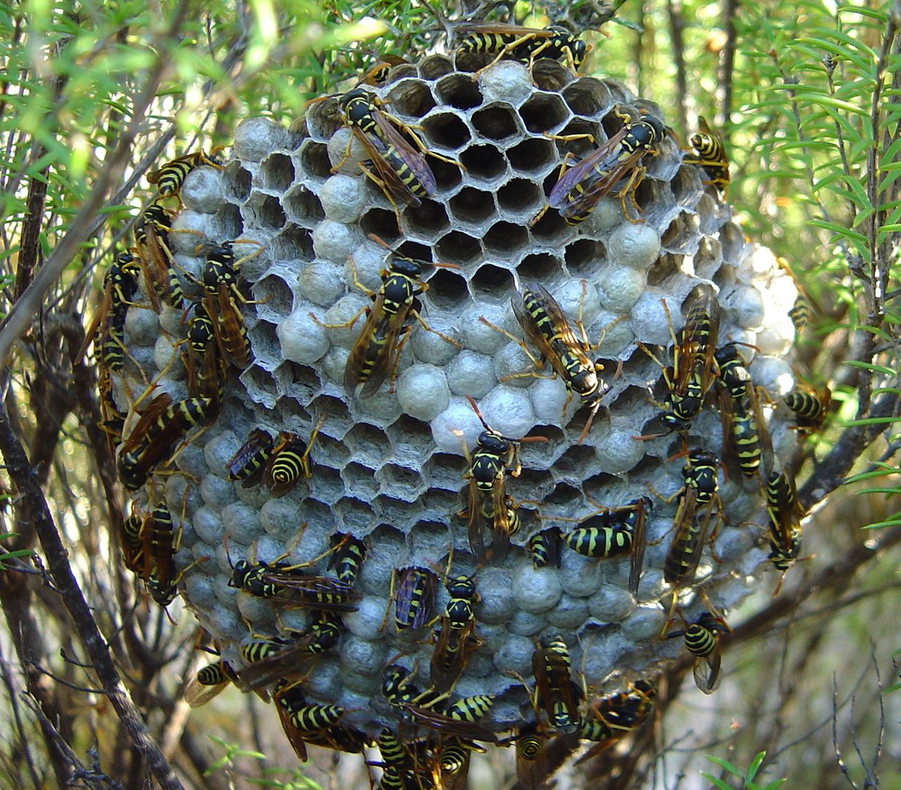 Polistes dominulus, European paper wasps in Western Australia.